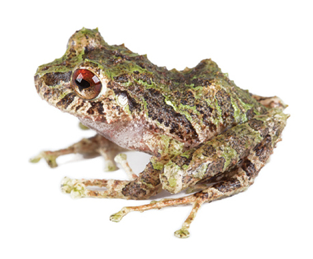 P. crucifer, QCAZ 56765, adult female, SVL = 25.6 mm